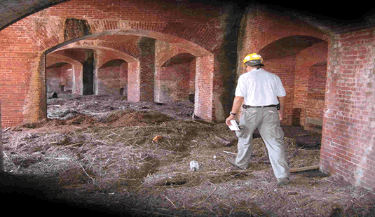 Hurricane Katrina debris inside Fort Massachusetts on Ship Island in the Gulf of Mexico off of the Mississippi Gulf Coast.